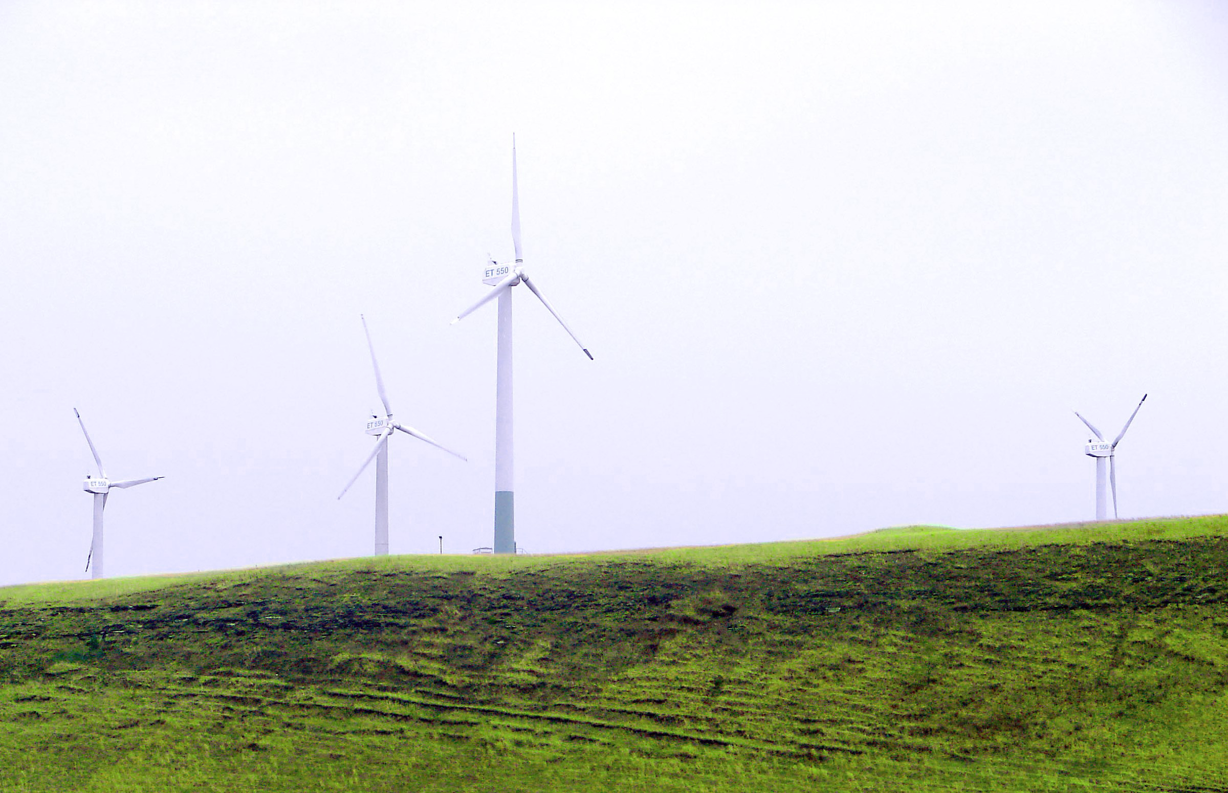 Tyupkildy wind park, Bashkortostan. Башҡортса: ЕЭС Төпкилде, Башҡортостан.